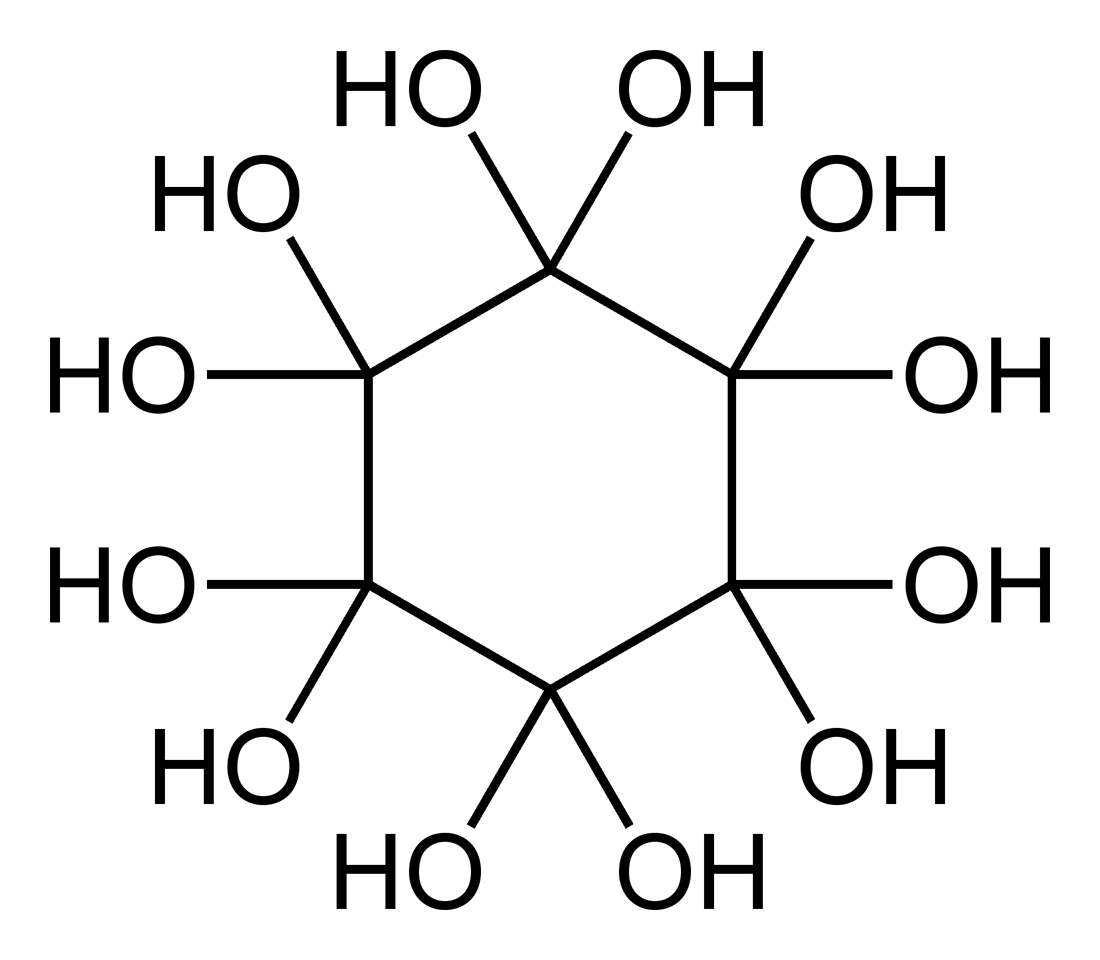 Skeletal formula of the dodecahydroxycyclohexane molecule, C6H12O12. Structure from Acta Cryst. (2005). E61, o1393-o1395. Model constructed and image generated in CrystalMaker 8.1.